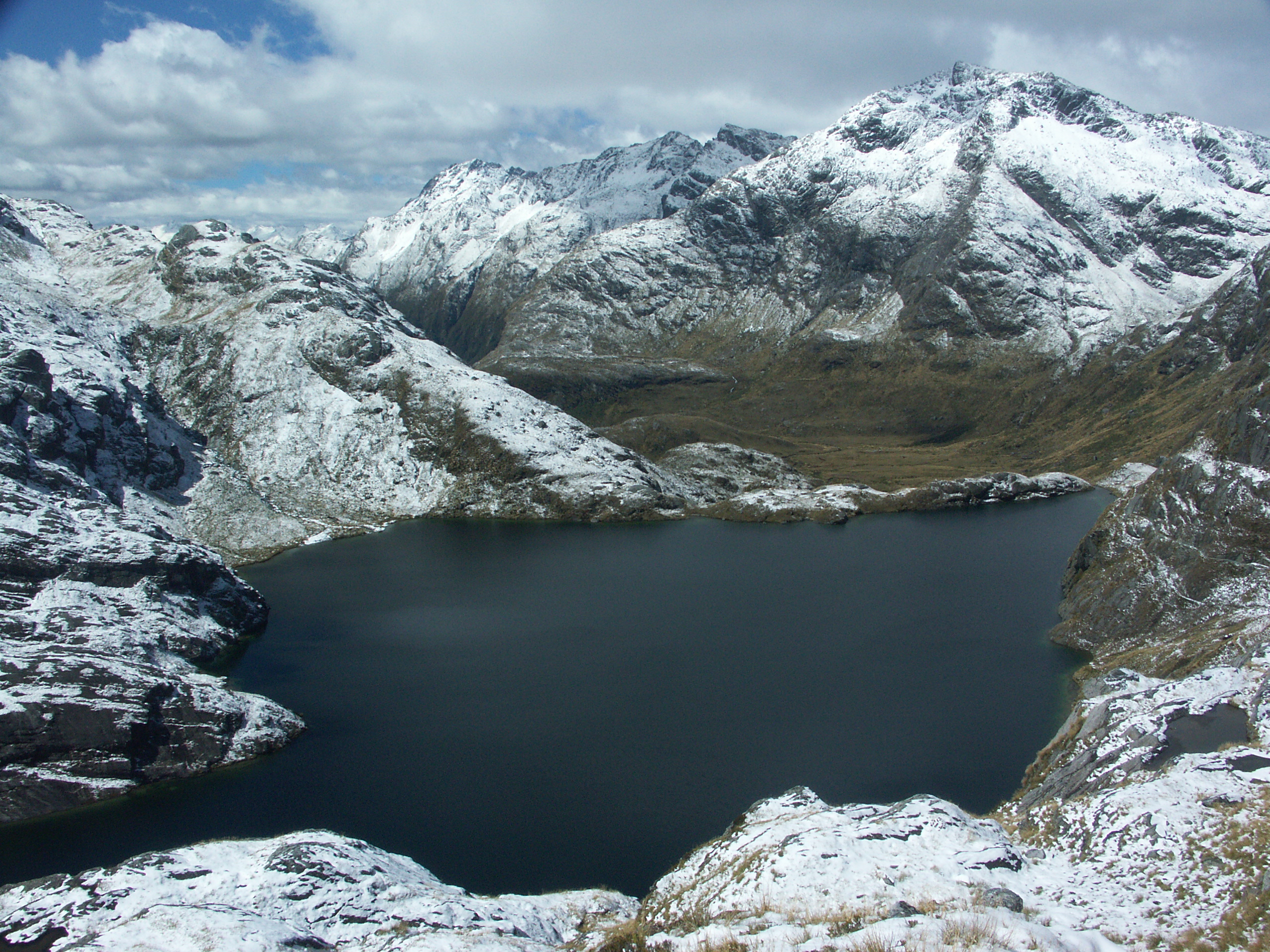 Lake Harris after a snowy day. Taken from the path from Harris saddle to Conical Hill.